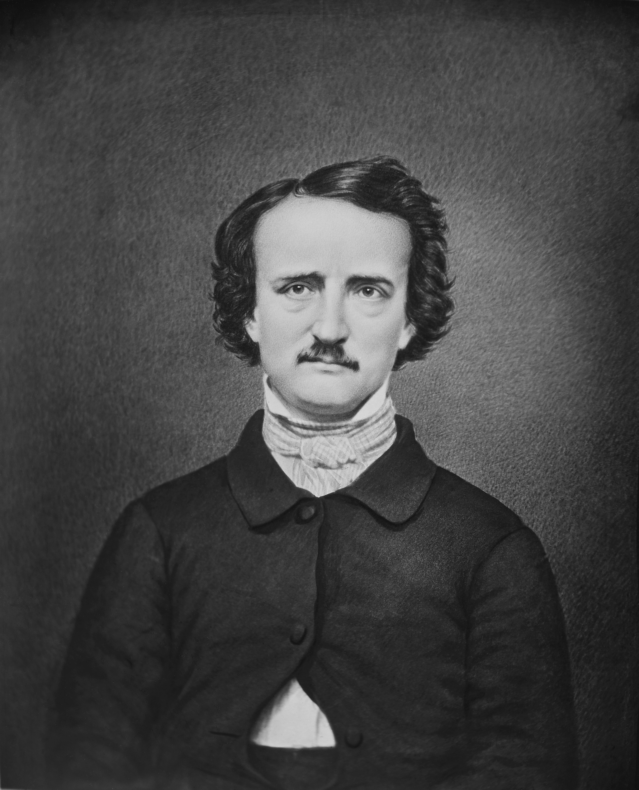 Scope and content: Drawing made from the “Ultima Thule” daguerreotype